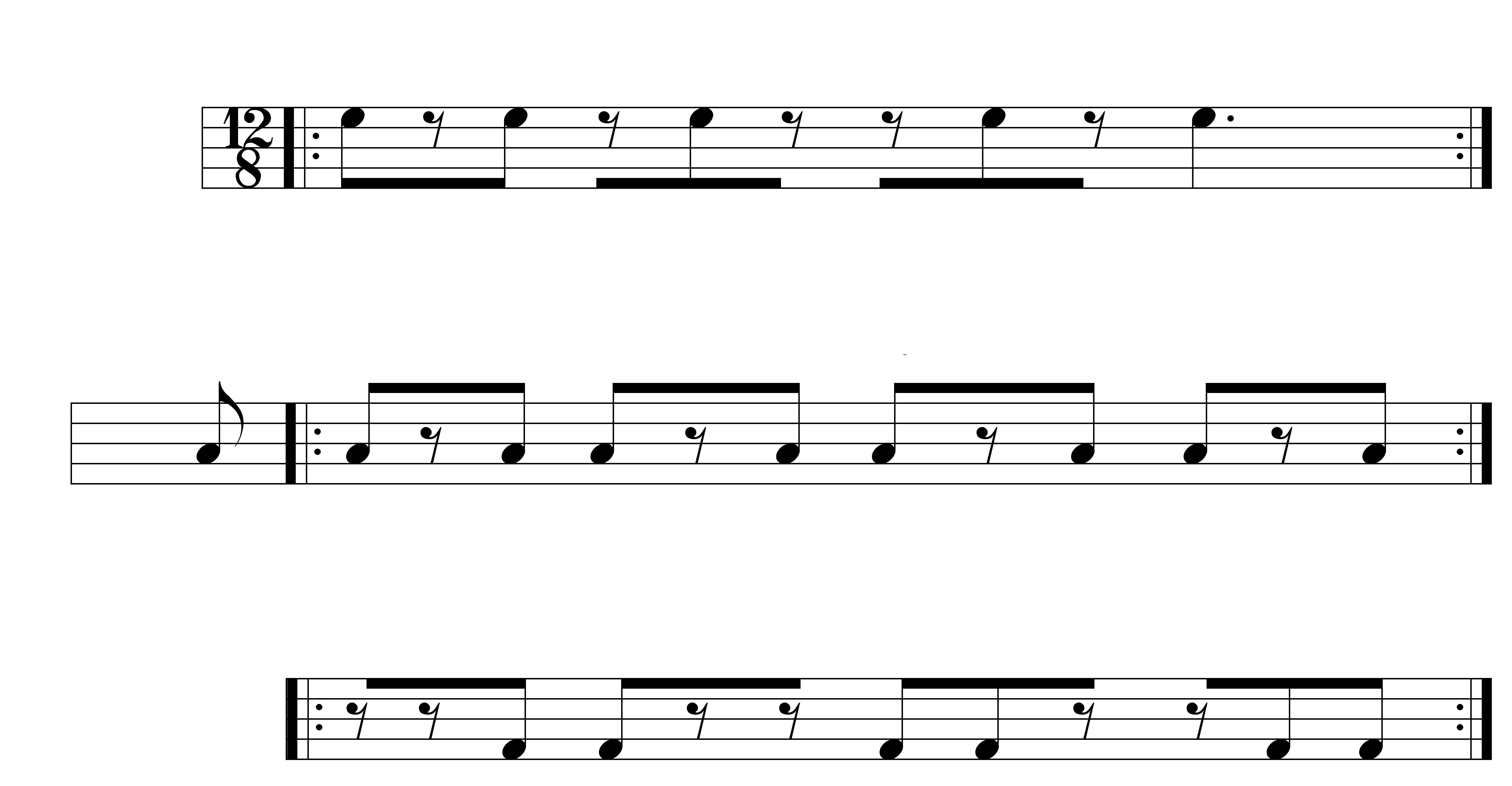 Correct cross-rhythmic representation of Yoruba drum ensemble, originally interpreted by King as polymeter.